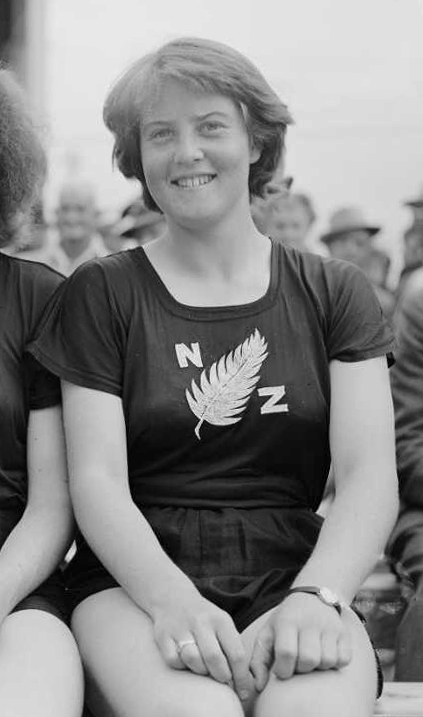 Place-getters in the women's javelin throwing event at the 1950 British Empire Games in Auckland, two from New Zealand, and one from Australia. Shows the athletes sitting on a bench. Photograph taken in February 1950 by an Evening Post photographer.